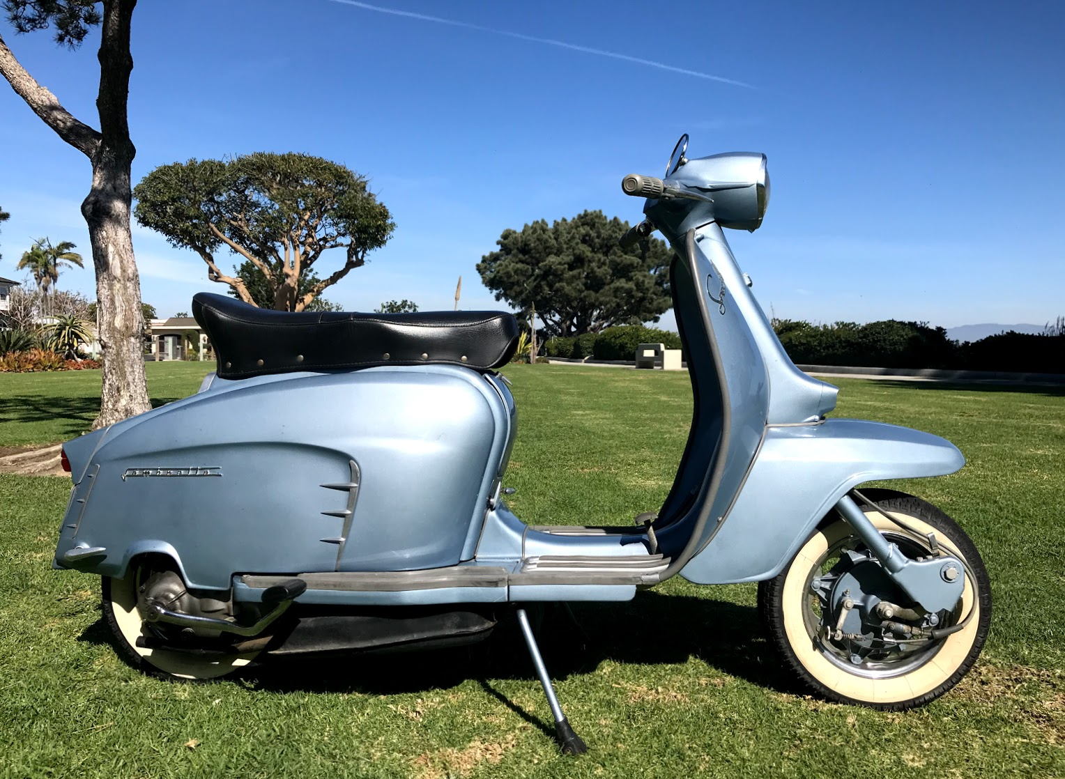 1966 Lambretta Model Li 125 Special in Metallic Blue.